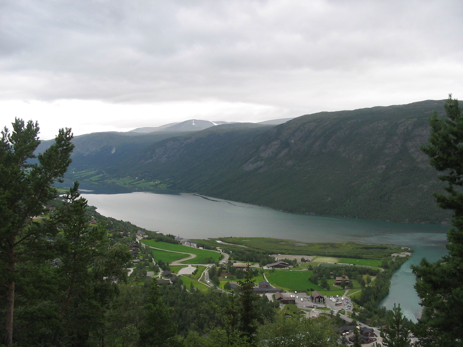 Lom with Skim lake, Norway